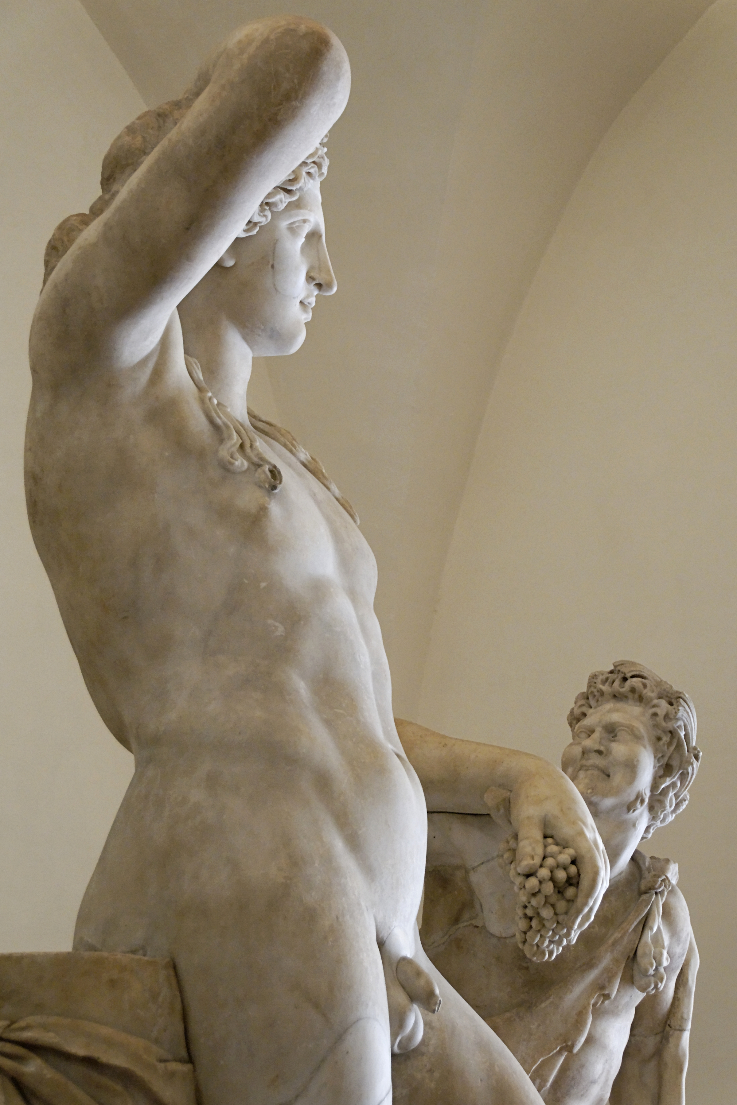 Drunken Dionysos and satyr, detail: the satyr. Marble, Roman copy from the 2nd century CE after an Hellenistic original. Marble; original elements: heads, torsos and thighs of Dionysos and satyr, right arm of Dionysos; restored elements: legs of Dionysos and satyr, arms of the satyr.